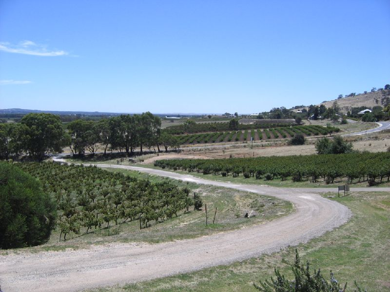 An overview of the Bethany vineyard. Bethany was the first settlement in the Barossa region. The family Schrapel planted the first vineyard in 1852. Today the winery is run by the fifth and sixth generation.